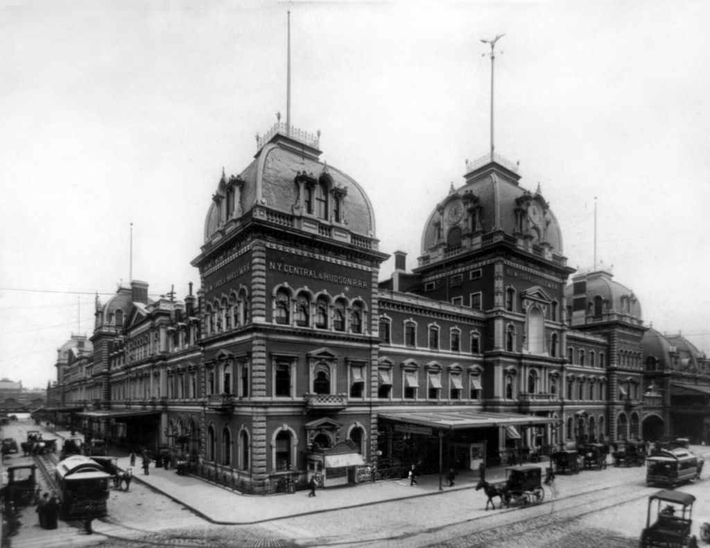 View of Grand Central Depot, New York City. The text of the following railroads was written on the building: left New York Central and Hudson River Railroad, middle New York and Harlem Railroad, right New York and New Haven Railroad